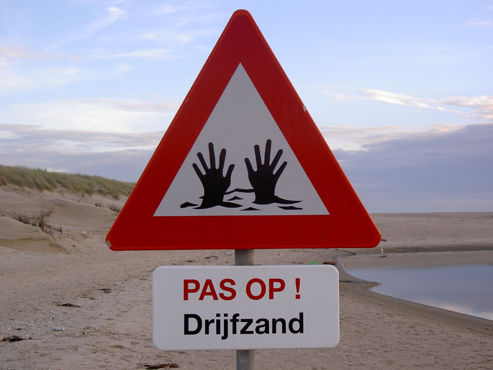 Sign Caution - quicksand! at the beach of the Dutch island Texel, near 'De Slufter'